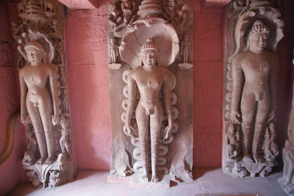 parsva parsvanath parshvanatha parshva artwork in Jainism, culture and religious history of India Deogarh Lalitpur temple is at the border of Uttar Pradesh and Madhya Pradesh, near Gwalior and Jhansi, River Betwa The site has dozens of Jaina temples in Deogarh, and numerous sculptures and extensive relief works. The center image is of Suparshvanatha (7th tirthankara) five-headed serpent-hood. The other two icons are of Parshvanatha (23rd tirthankara) with seven-headed serpent-hood.